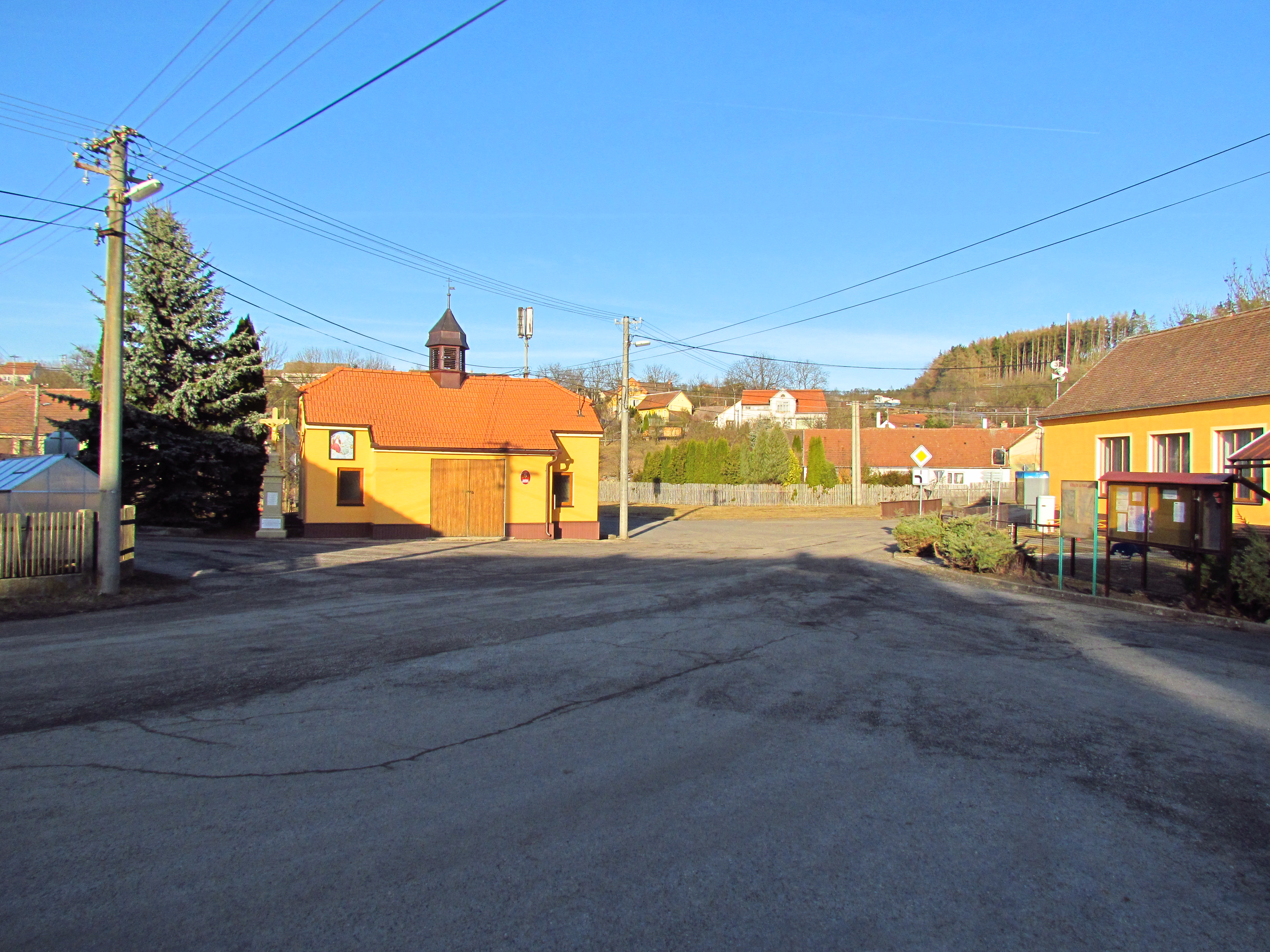 Center of Kuroslepy, Třebíč District.